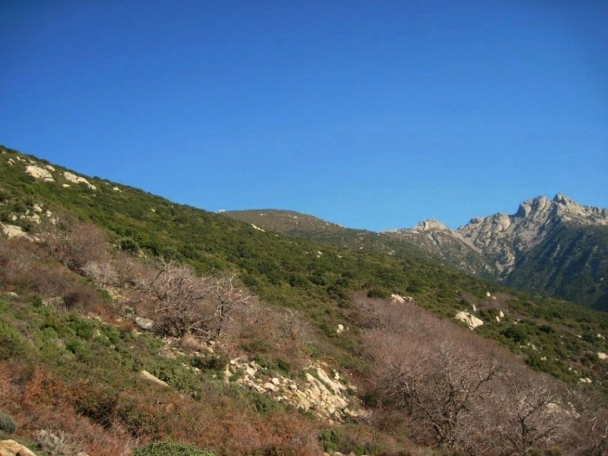 Il sito dell'antico villaggio medievale di Pedemonte (isola d'Elba)